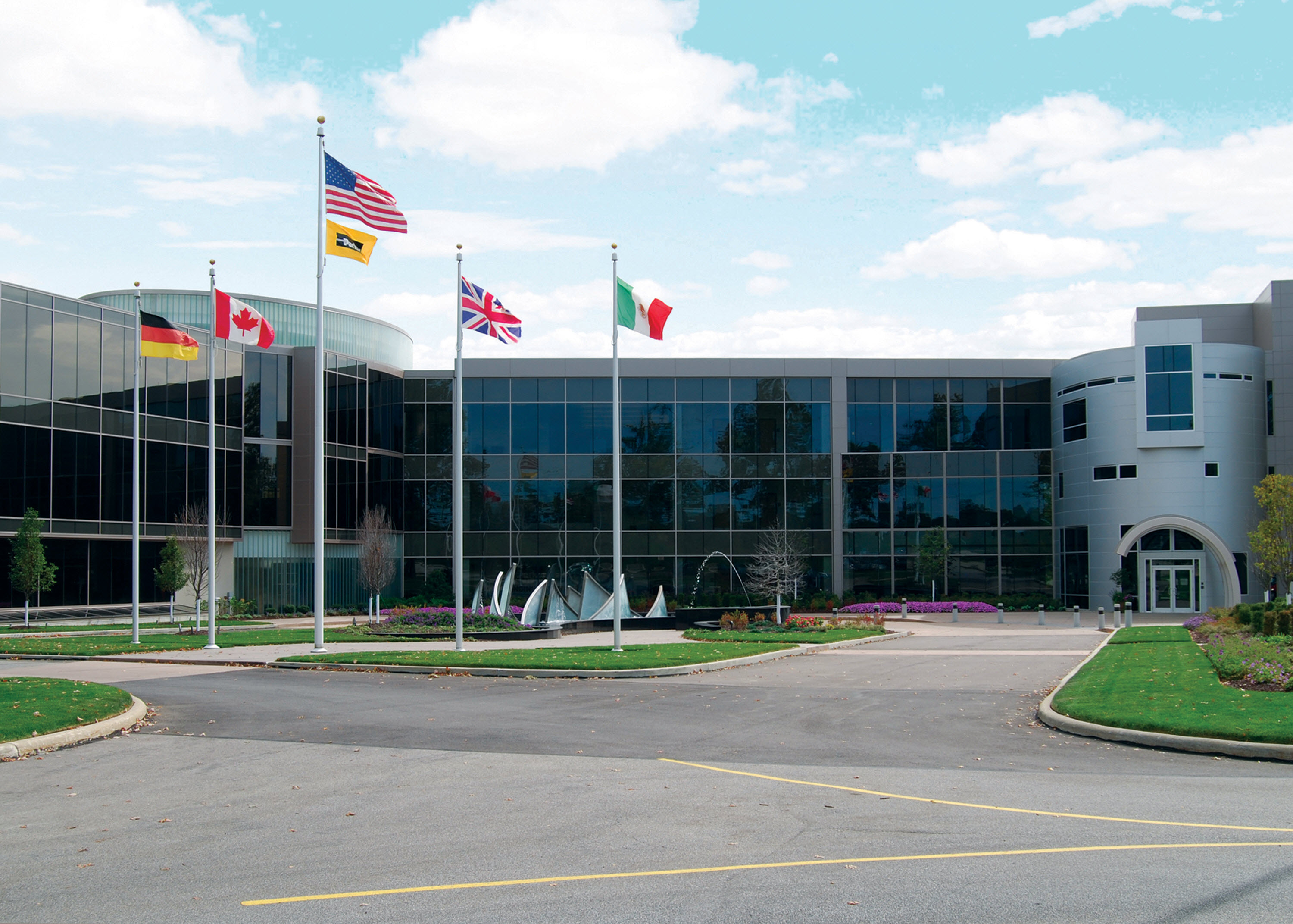 Located in Cleveland, Ohio.